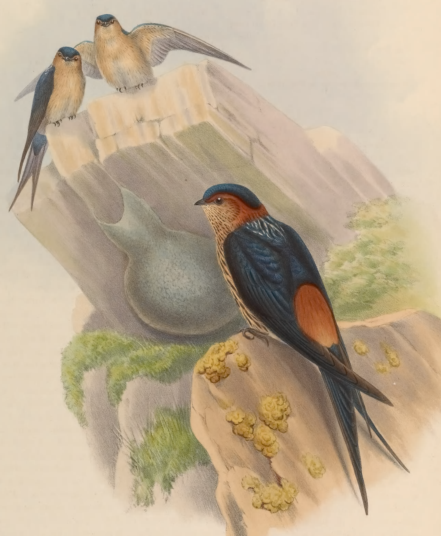 Cecropis daurica (daurica)